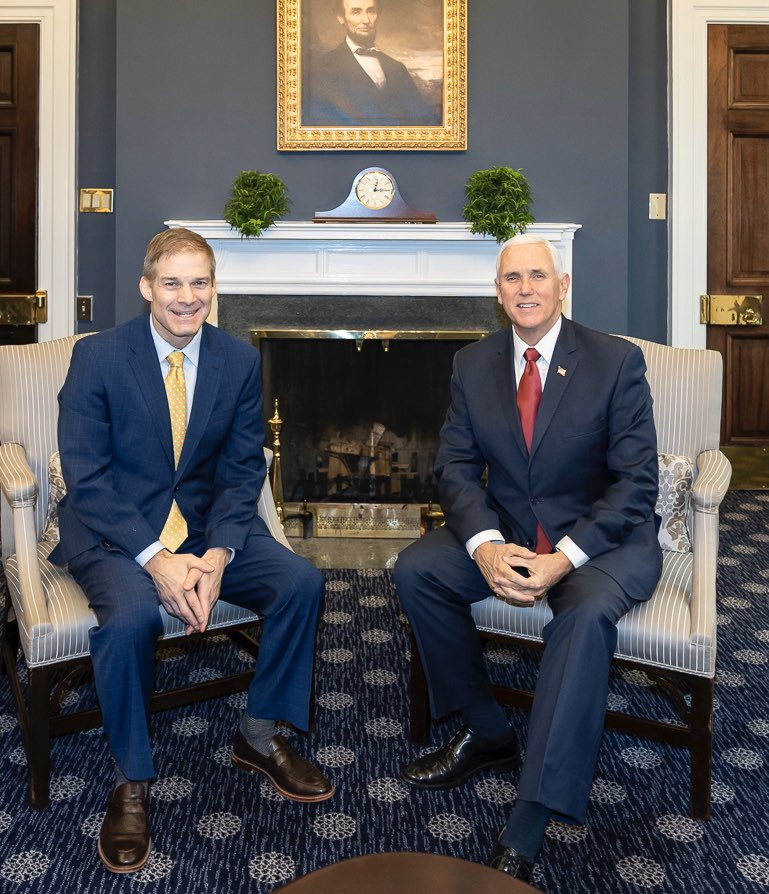 Hey @jaketapper, you could have called and asked - but you didn’t. Here’s a photo from earlier today, I hope you admire the portrait of “Vice” President Lincoln hanging above his mantle.